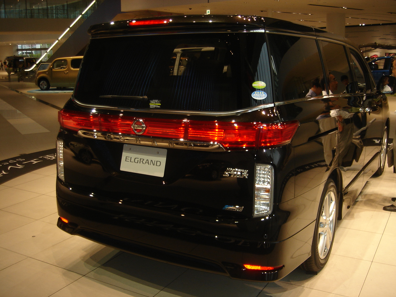 Nissan Elgrand